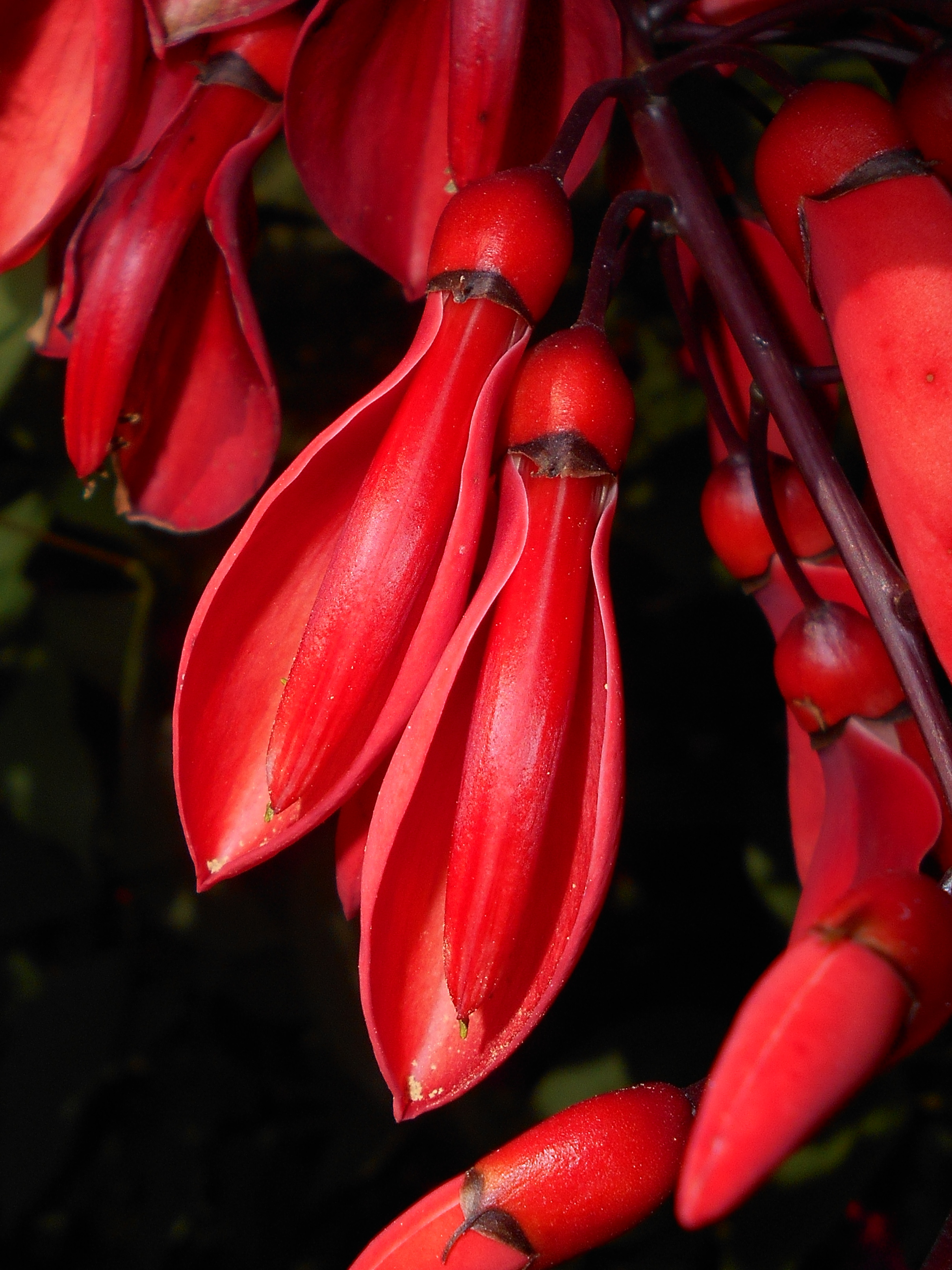 Flowers of cockspur coral tree (Erythrina crista-galli), Botanical Garden of the Jagiellonian University in Kraków, Poland.